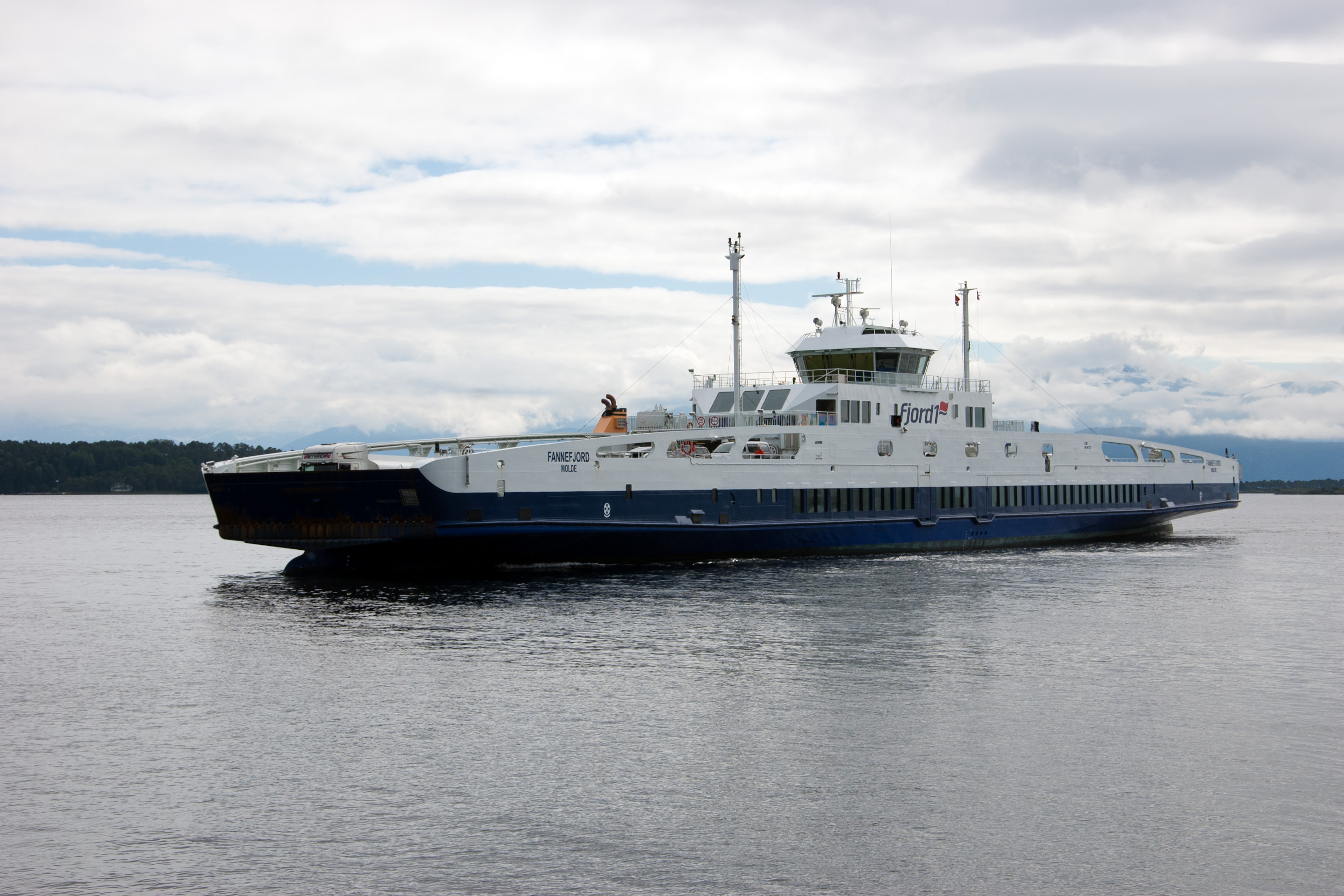 MF Fannefjord between Molde and Vestnes in Møre og Romsdal county, Norway.